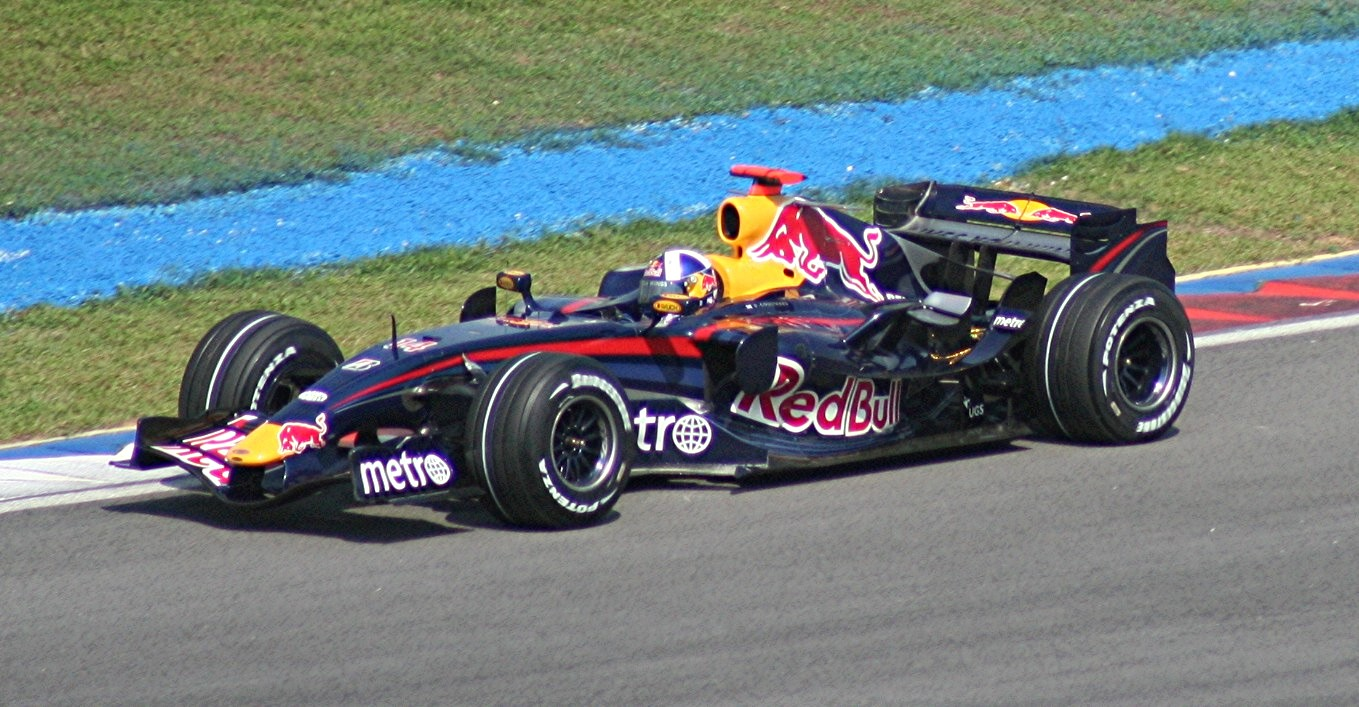 David Coulthard driving for Red Bull Racing at the 2007 Malaysian Grand Prix.